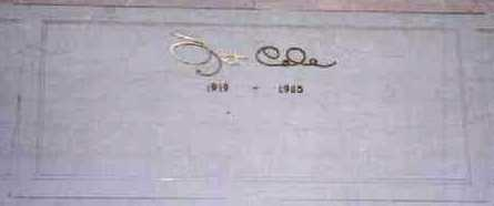 Nat King Cole crypt.